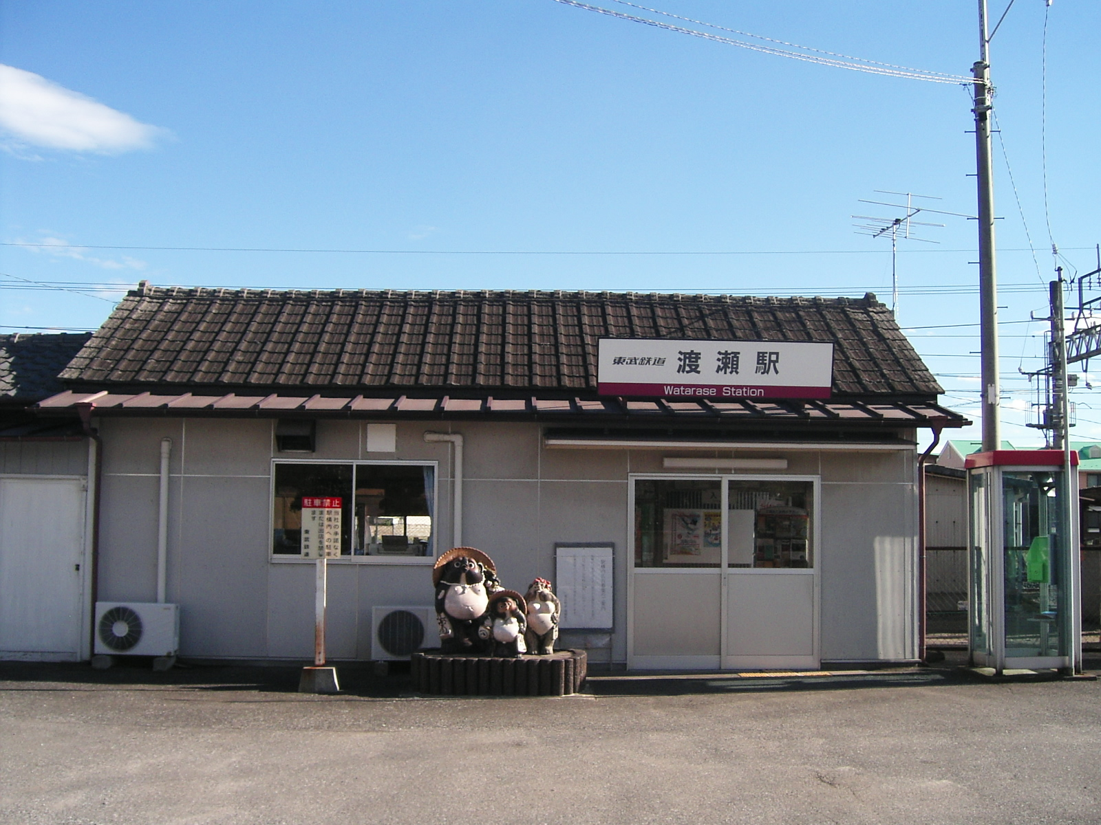 東武佐野線渡瀬駅（群馬県館林市） Tobu Railway Watarase Station in Gunma pref. in Japan